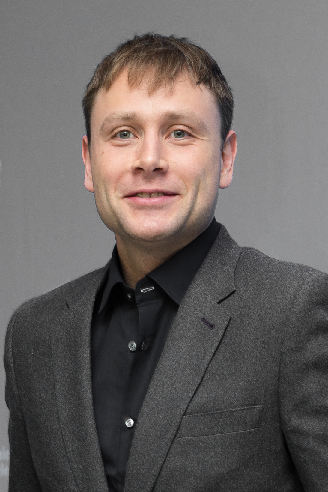 The actor Max Riemelt presenting Berlin Syndrome at the Berlinale 2017